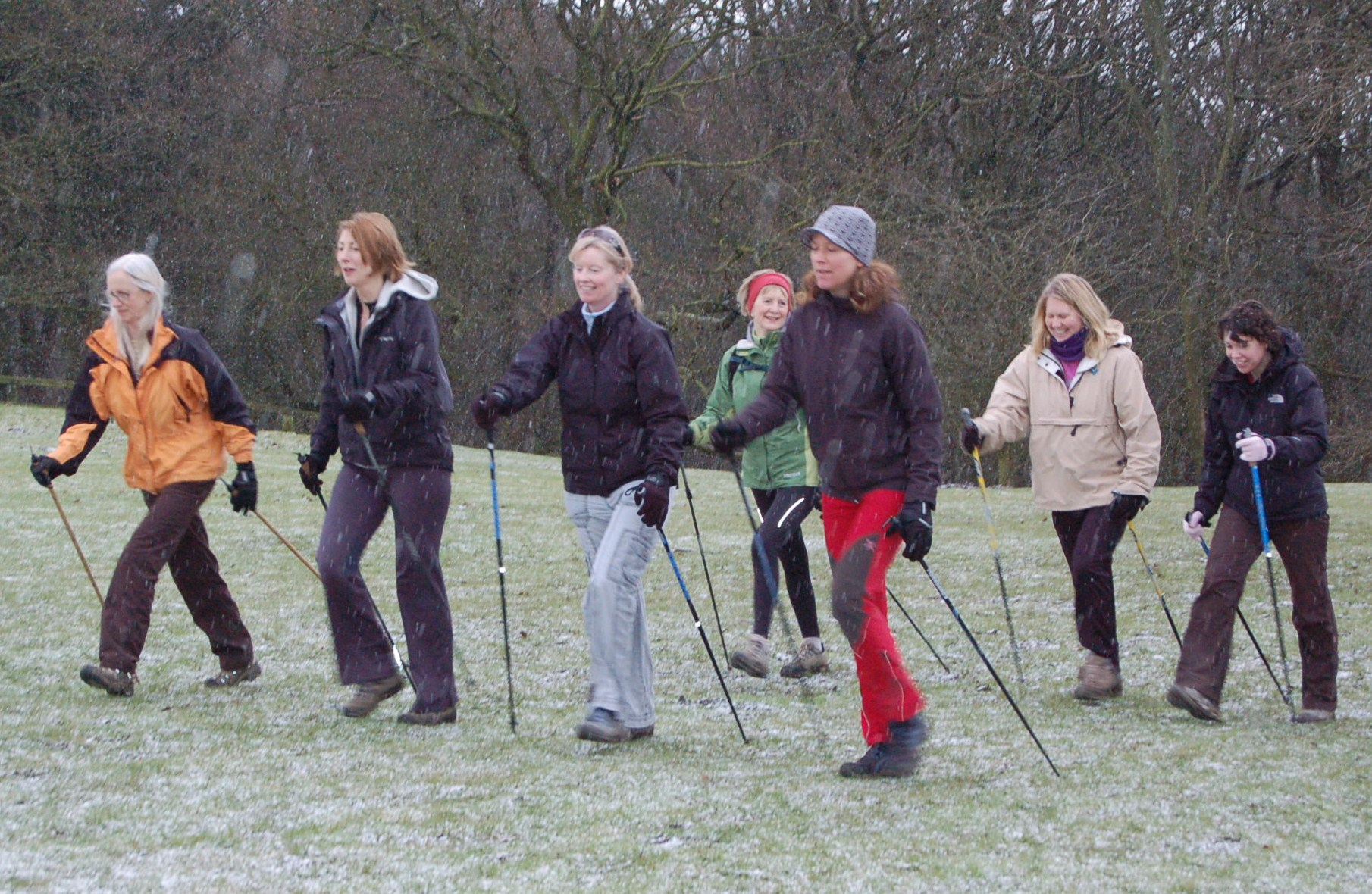 Nordic Walkers near Ilkley, norther England